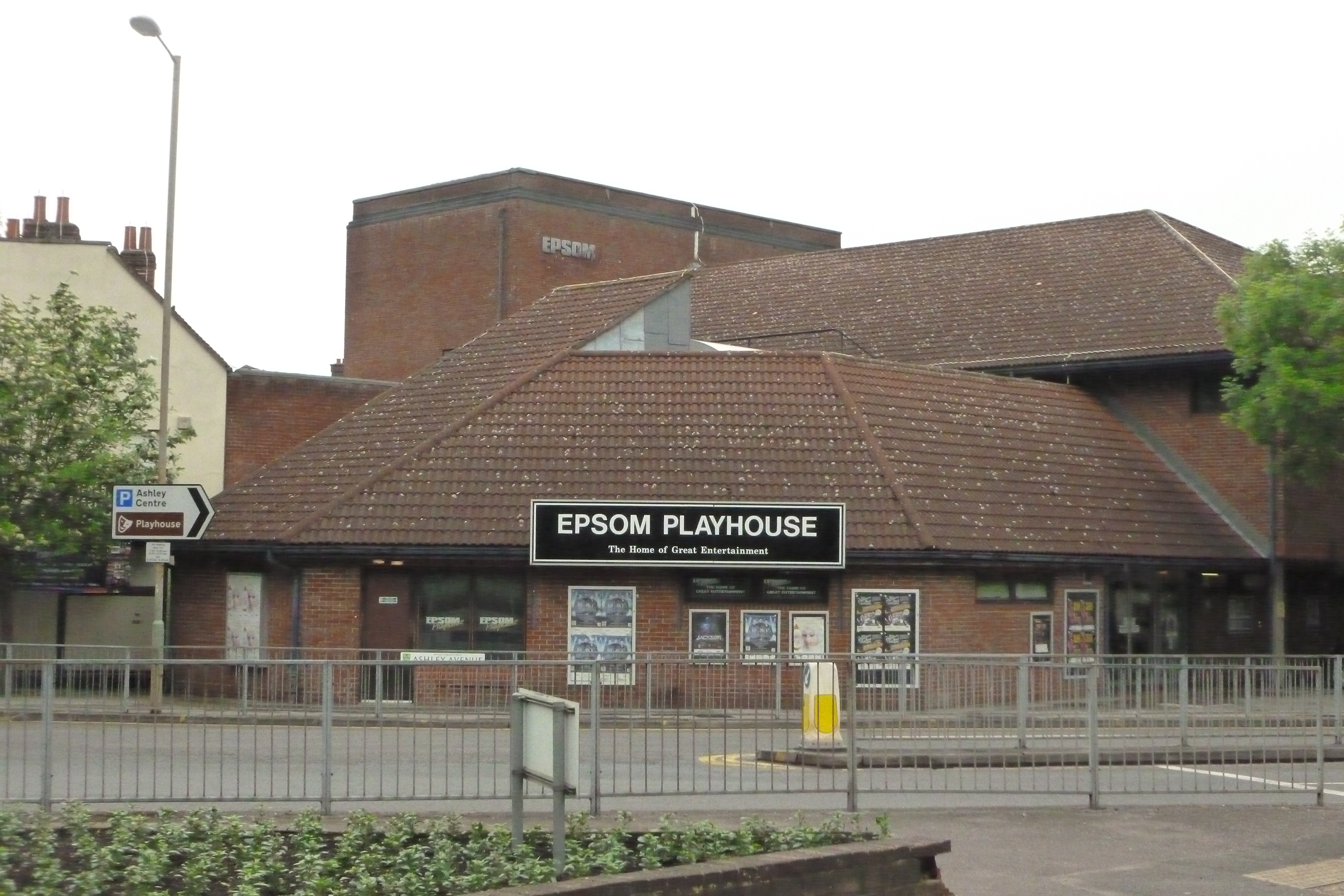 Epsom Playhouse in May 2013